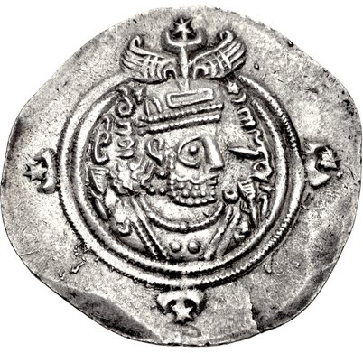 Coin of Hormizd V.